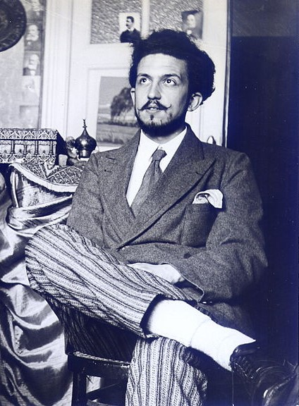 Jean Groffier